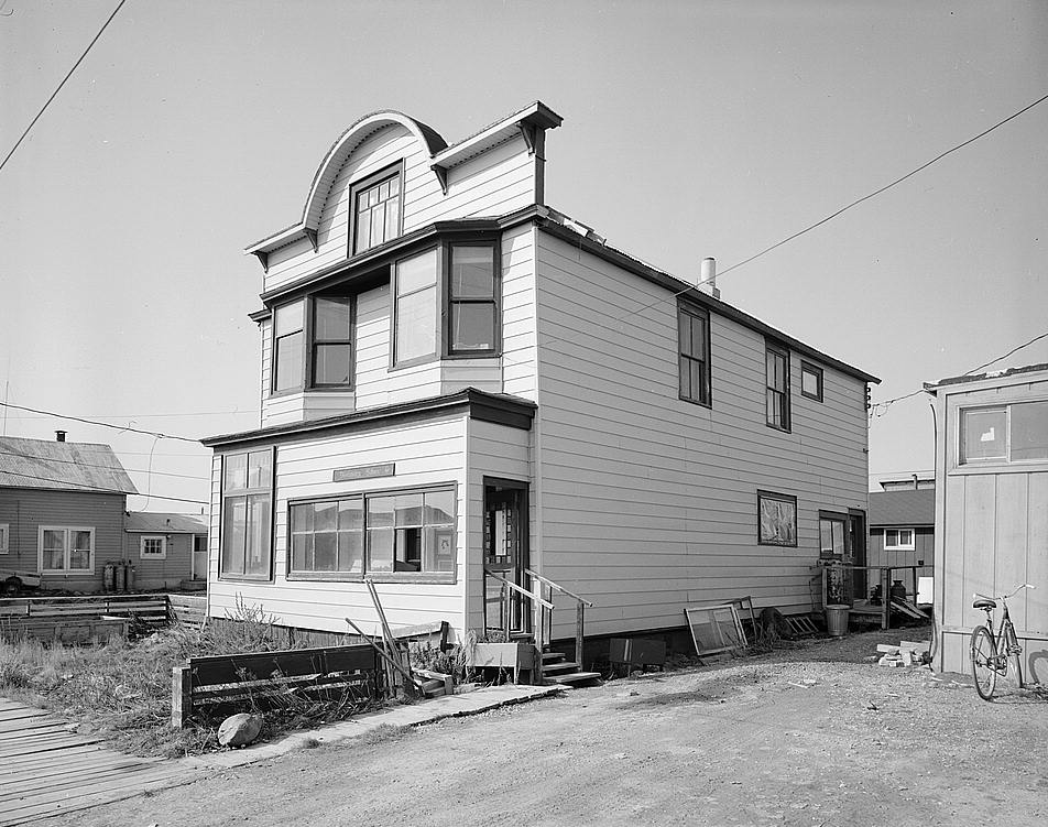 Northeastern corner of the Discovery Saloon, located at the intersection of 1st Ave. and D St. in Nome, a city in the Nome Census Area of the U.S. state of Alaska. Built in 1901, the building was added to the National Register of Historic Places on 3 April 1980.